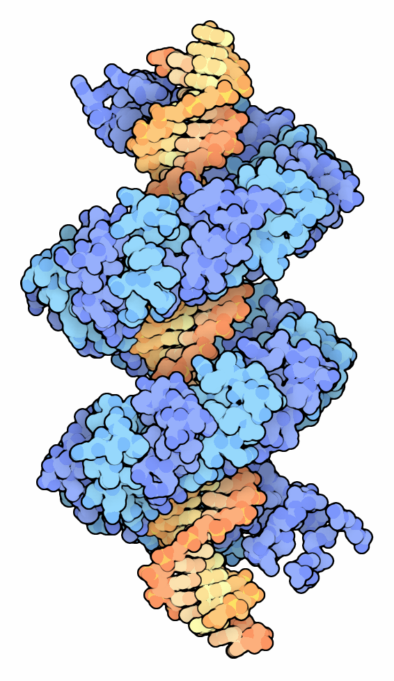 Space-filling drawing of a TAL effector bound to double-helical DNA. TALE proteins contain a series of alpha-helical hairpin domains, each of which binds an individual DNA base, so that the protein recognizes a long, very specific DNA sequence. Plant bacteria can use a TALE protein to target transcription of a specific gene that makes the plant more susceptible to infection. Drawn by David Goodsell from PDB file 3UGM.